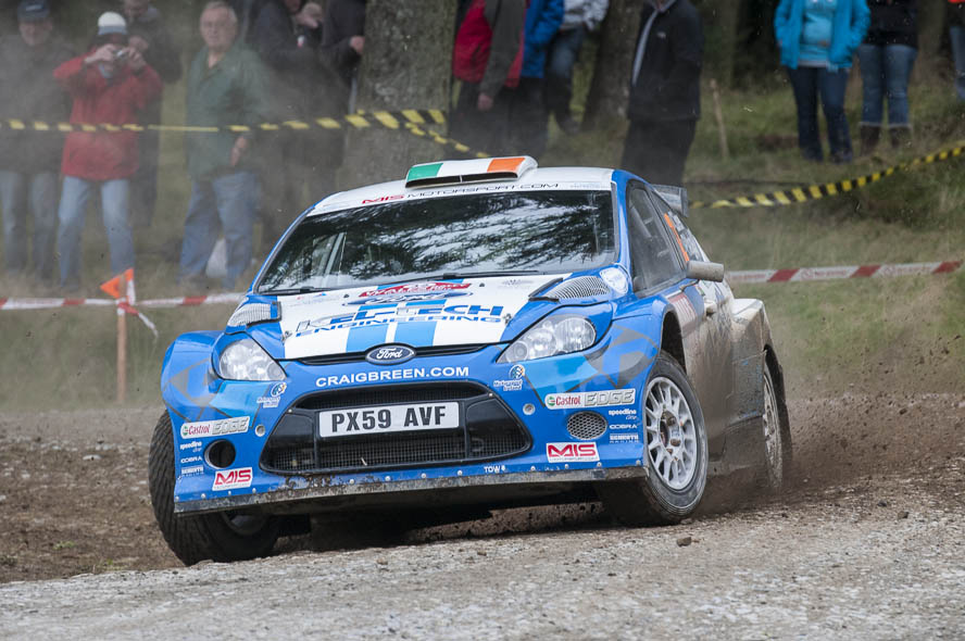 Wales Rally Great Britain 2012 Craig Breen,Crychan 2,Ford Fiesta S2000,Motorsport,Paul Nagle,Rally,Rallye,SS10,WP10,WRC,Wales Rally GB